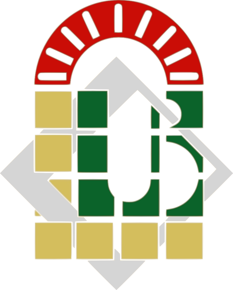 Logo University of biskra logo